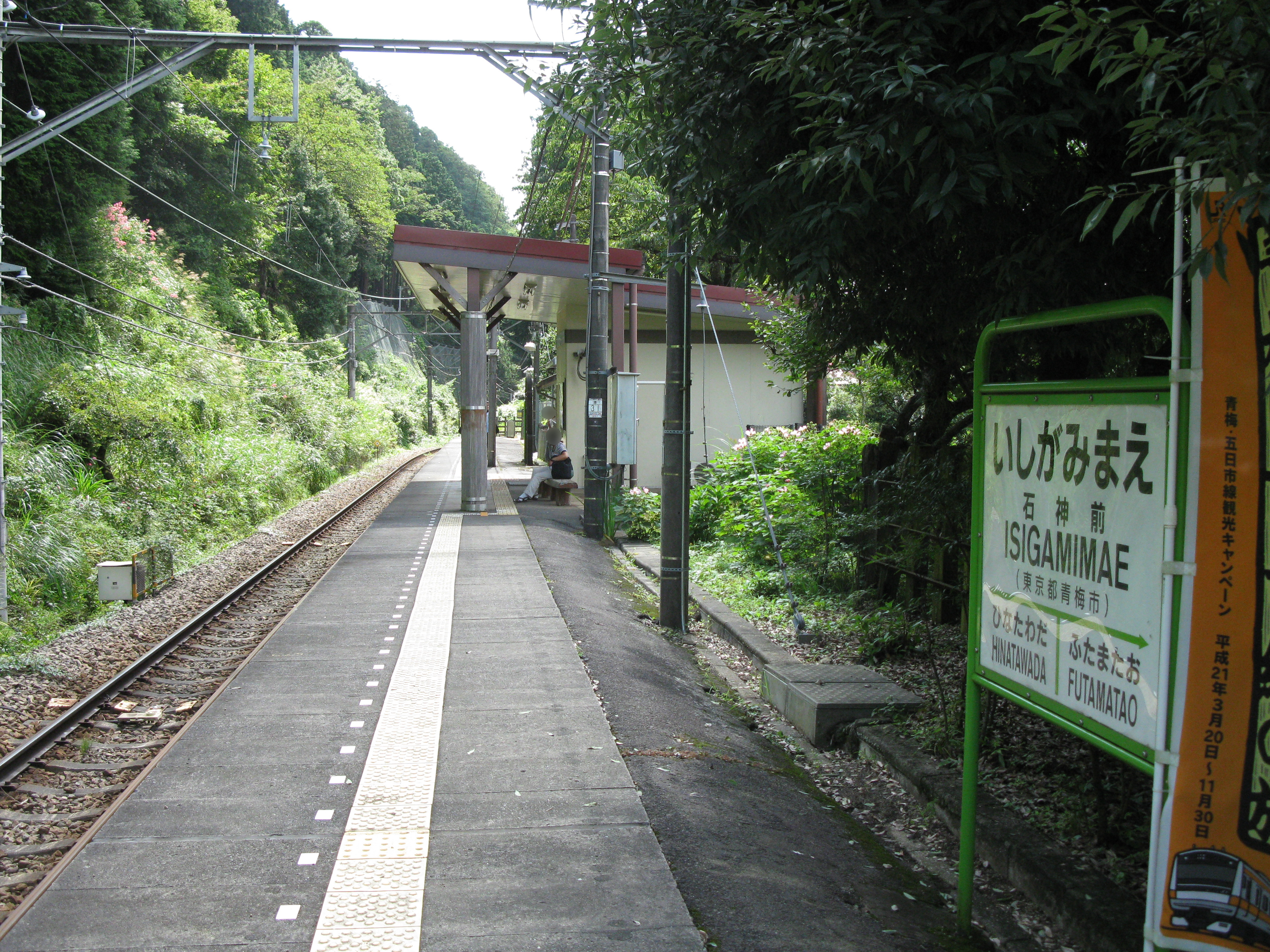 Ishigamimae Station platform (East Japan Railway Ōme Line)